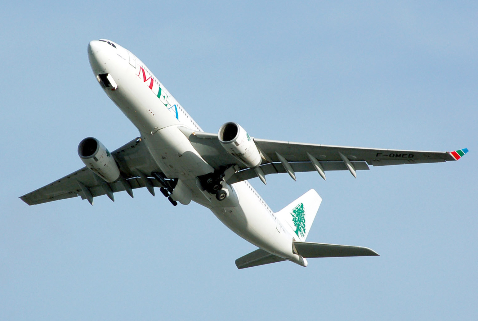 Middle East Airlines A330-200 (F-OMEB) takes off from London Heathrow Airport, England. Photographed by Adrian Pingstone in January 2007 and released to the public domain.